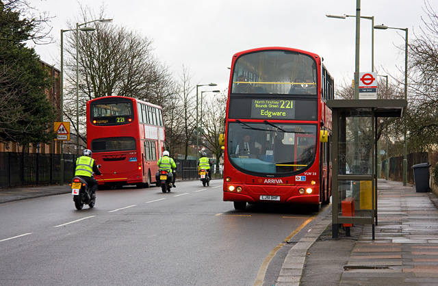 Two of a Kind Buses on the 221 route stop simultaneously for passengers on Pursley Road, outside Copthall School. As chance would have it they are consecutive vehicles, VLW27 and VLW28, Wrightbus Eclipse Gemini bodied Volvo B7TL's. VLW27 carries ex-Routemaster registration VLT 27. A pair of learner motorcyclists with an instructor are passing with care. Note the doubling of the street lights. This seems to have been done along much of the route from Page Street to Holders Hill Circus.